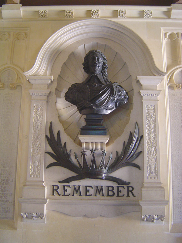 Memorial to King Charles I of England at Carisbrooke Castle, Isle of Wight By ChrisO